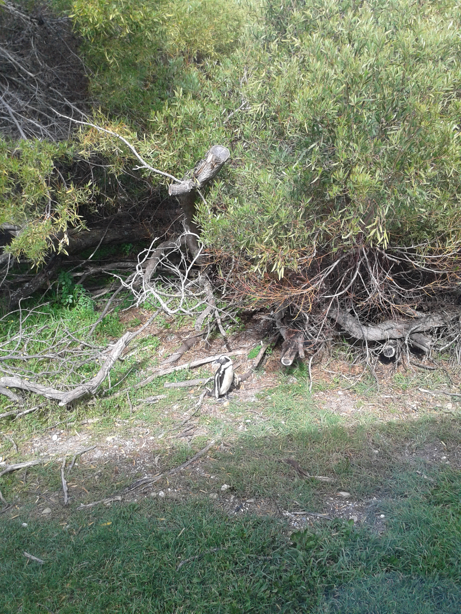 Blackfoot penguin (Spheniscus demersus) at Robben Island.